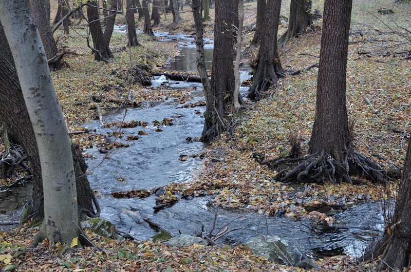 Malina near Dreváreň (Kuchyňa)